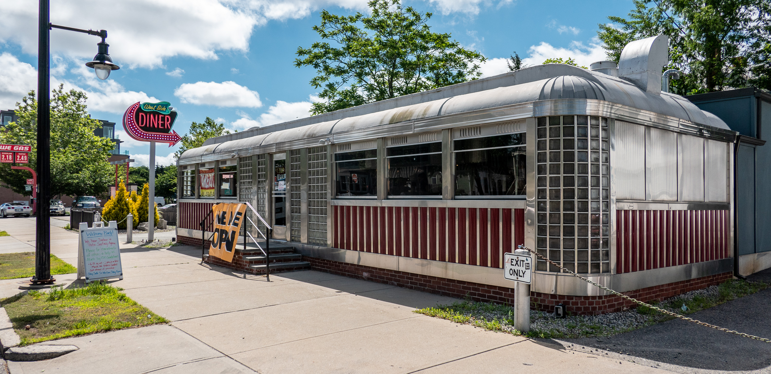 West Side Diner, formerly Poirier's Diner, is a historic restaurant at 1380 Westminster Street in Providence RI.